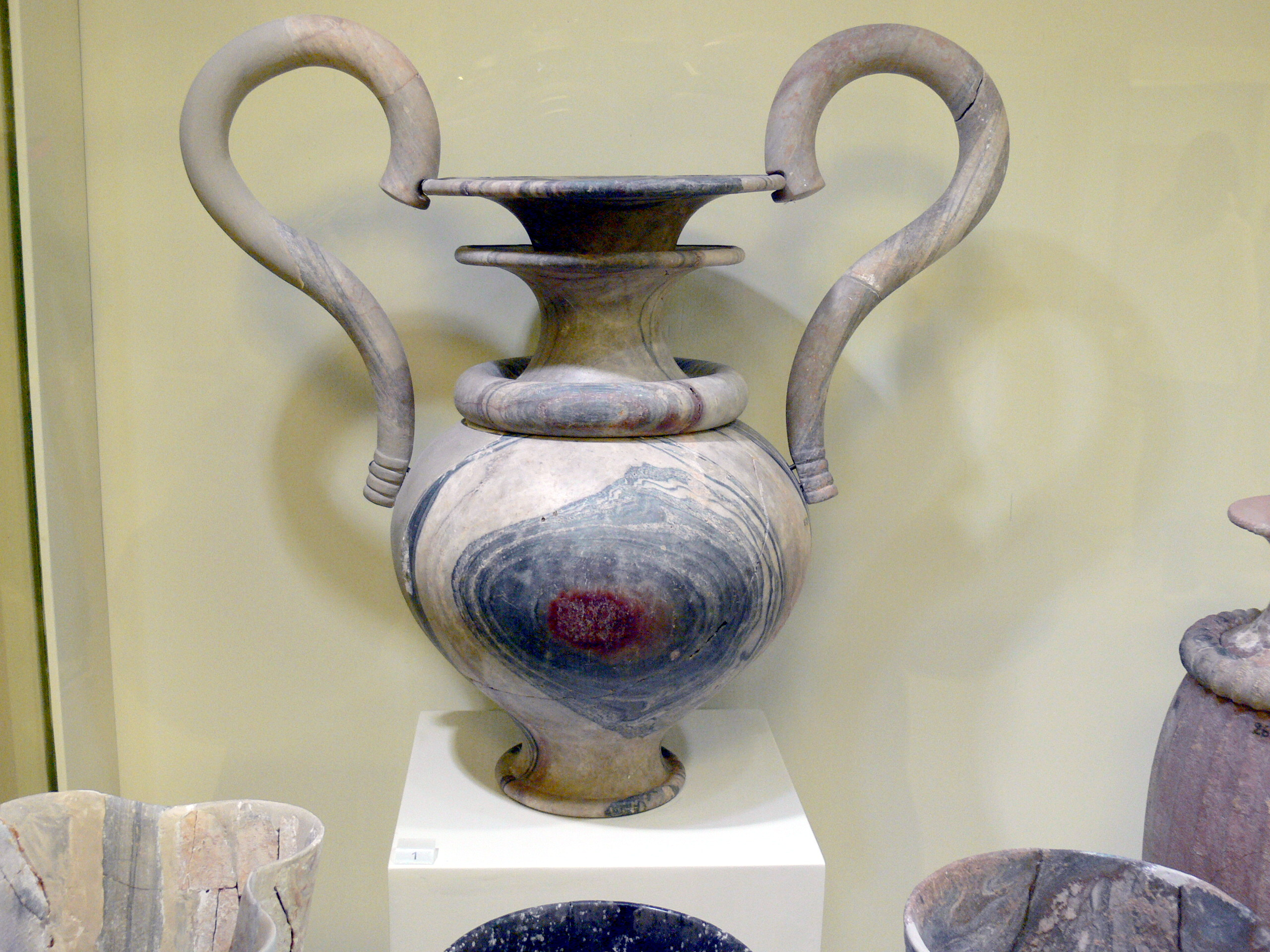 Archaeological Museum in Herakleion. Ritual amphora of veined marble from Zakros. New palace period ( 1500-1450 B.C. )